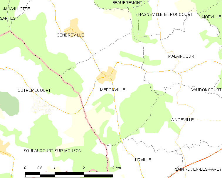 Map of French municipality Médonville